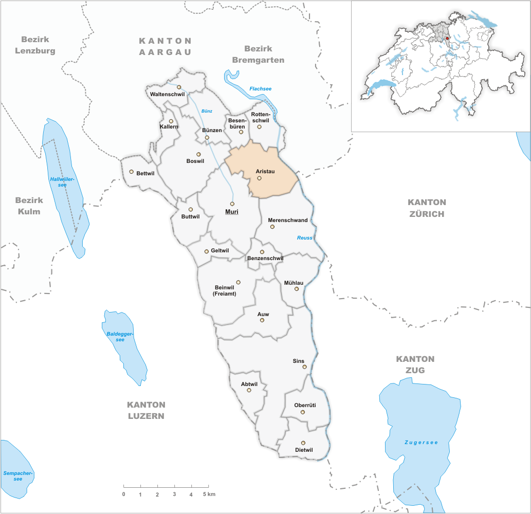 Municipality Aristau